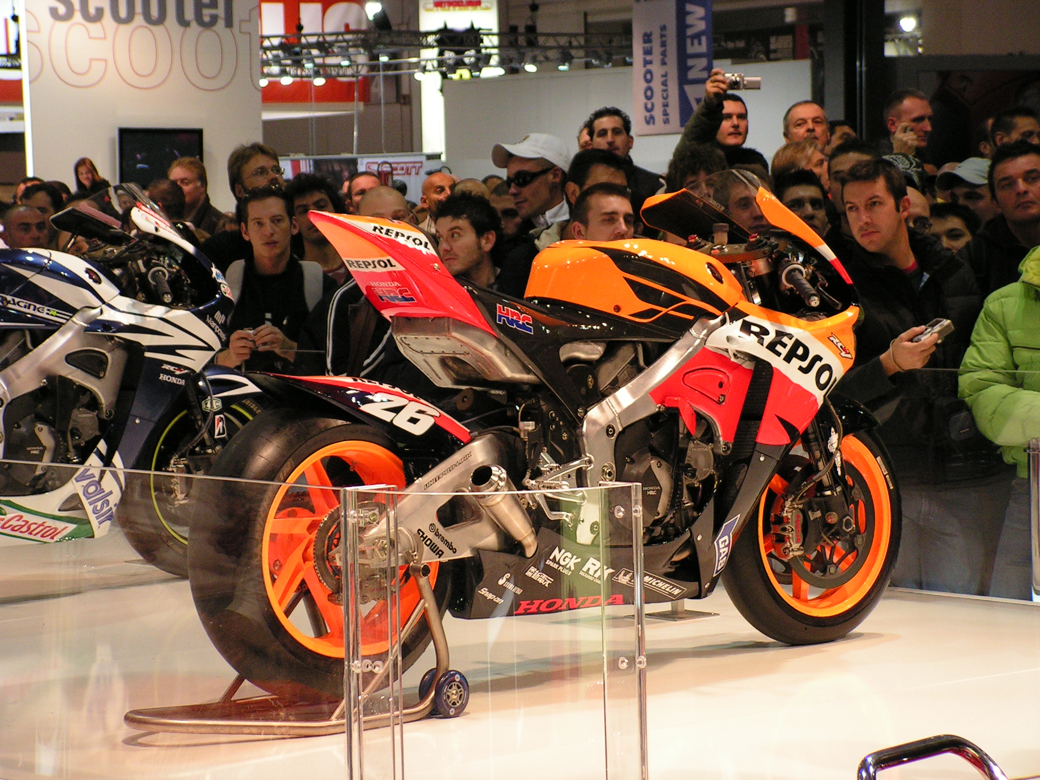 Honda RC212V used by Daniel Pedrosa in the 2007 MotoGP - EICMA 2007, Milan (Italy)